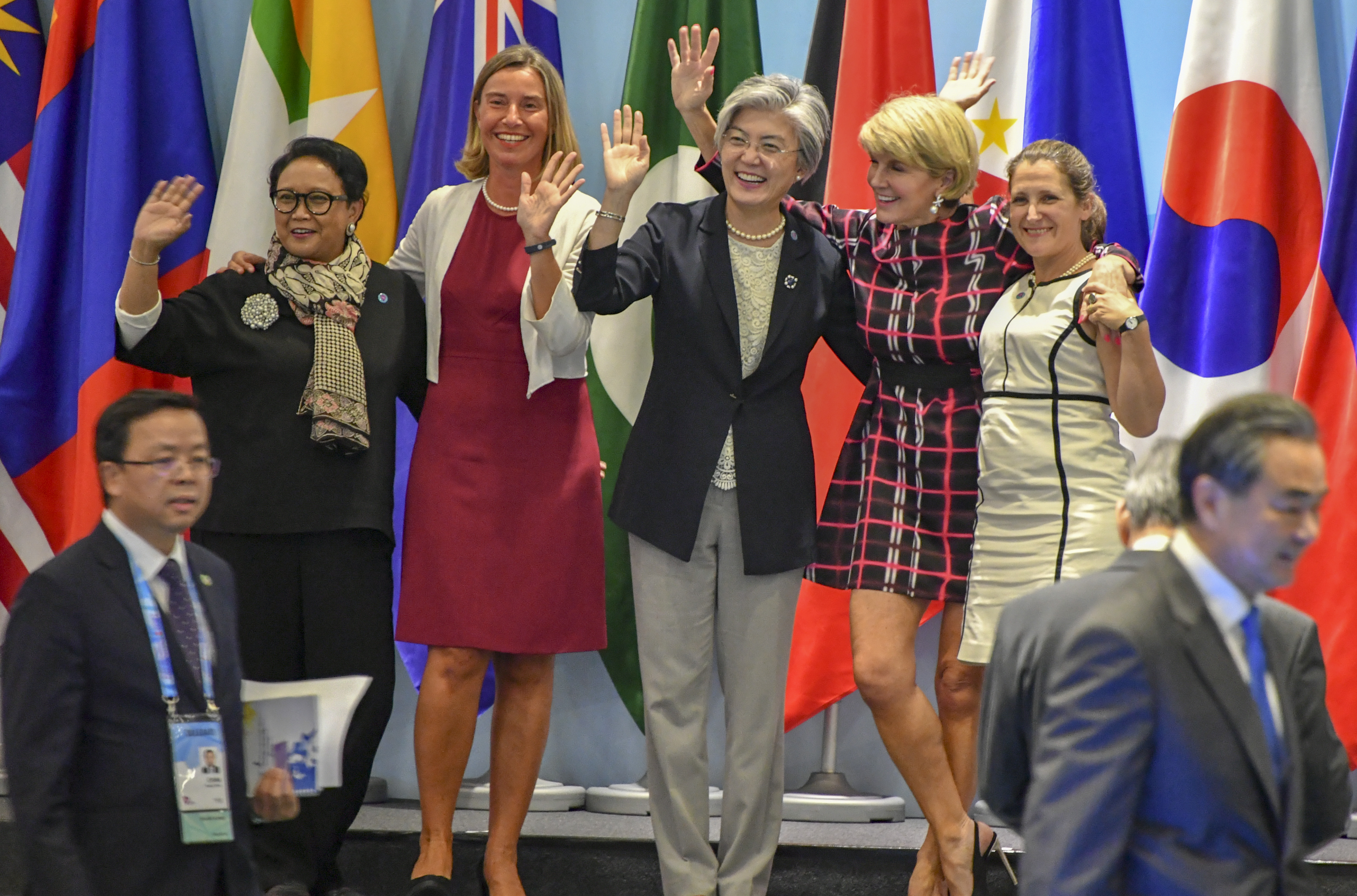 Female Foreign Ministers: Indonesia's Retno Marsudi, EU's High Representative of the EU for Foreign Affairs and Security Policy Federica Mogherini, South Korea's Kang Kyung-wha, Australia's FM Julie Bishop and Canada's Minister of Foreign Affairs Chrystia Freeland at the ASEAN Regional Forum Retreat in Singapore, Singapore